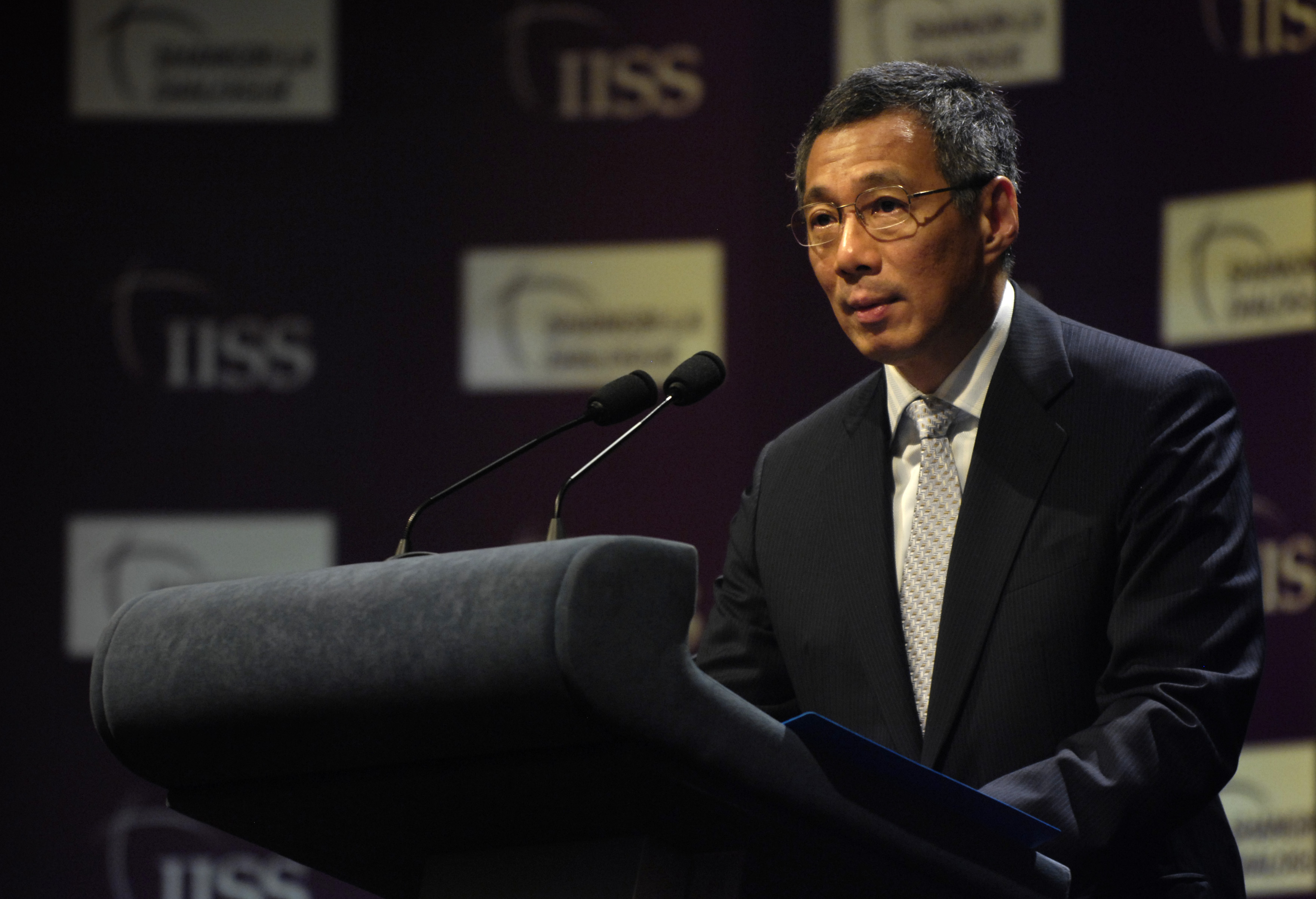 Singapore Prime Minister and Minister for Finance Lee Hsien Loong delivers the keynote address to open the 6th International Institute for Strategic Studies conference, the Shangri-La dialogue, in Singapore, 1 June 2007.